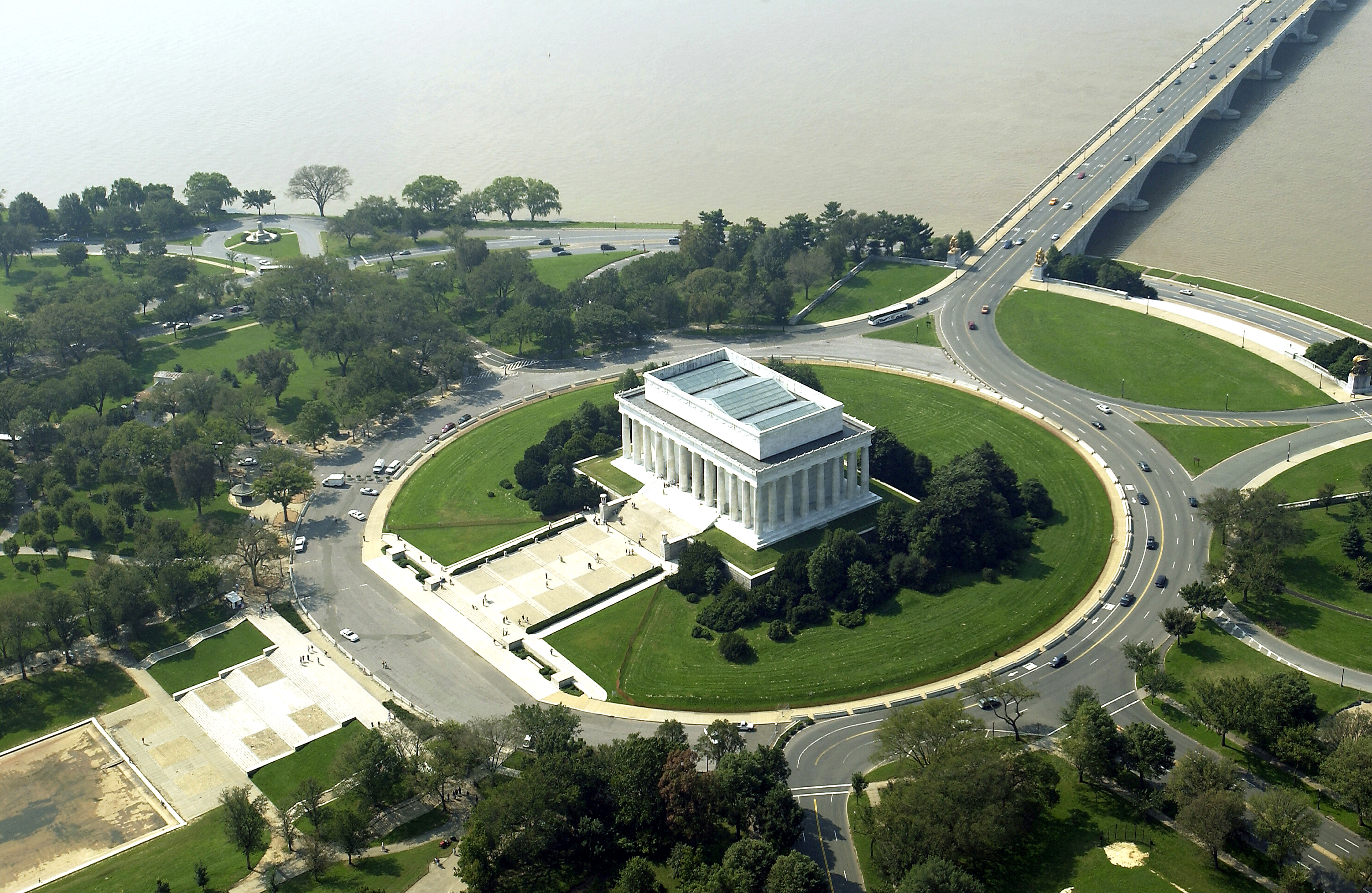 030926-F-2828D-157 Washington D.C. (Sep. 26, 2003) -- Aerial view of the Lincoln Memorial in downtown Washington, D.C. The Lincoln Memorial is a tribute to President Abraham Lincoln and the nation he fought to preserve during the Civil War (1861-1865). It was built to resemble a Greek temple. It has 36 Doric columns, one for each state at the time of Lincoln's death. A sculpture by Daniel Chester French of a seated Lincoln is in the center of the memorial chamber. Inscribed on the south wall of the monument is the Gettysburg Address. Above it is a mural painted by Jules Guerin depicting the angel of truth freeing a slave. Guerin also painted the unity of North and South mural on the north wall. Etched into the north wall below the mural is Lincoln's second inaugural speech.